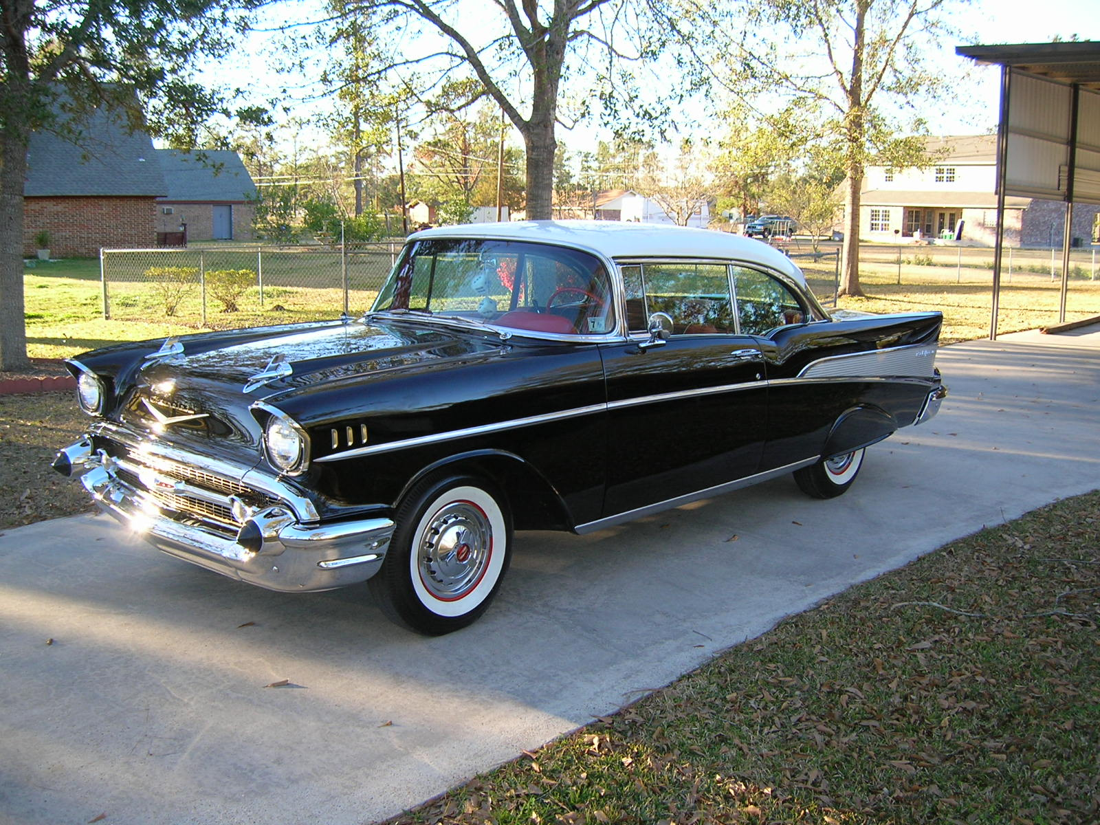 1957 Chevrolet Bel Air Sport Coupe It is my own work.